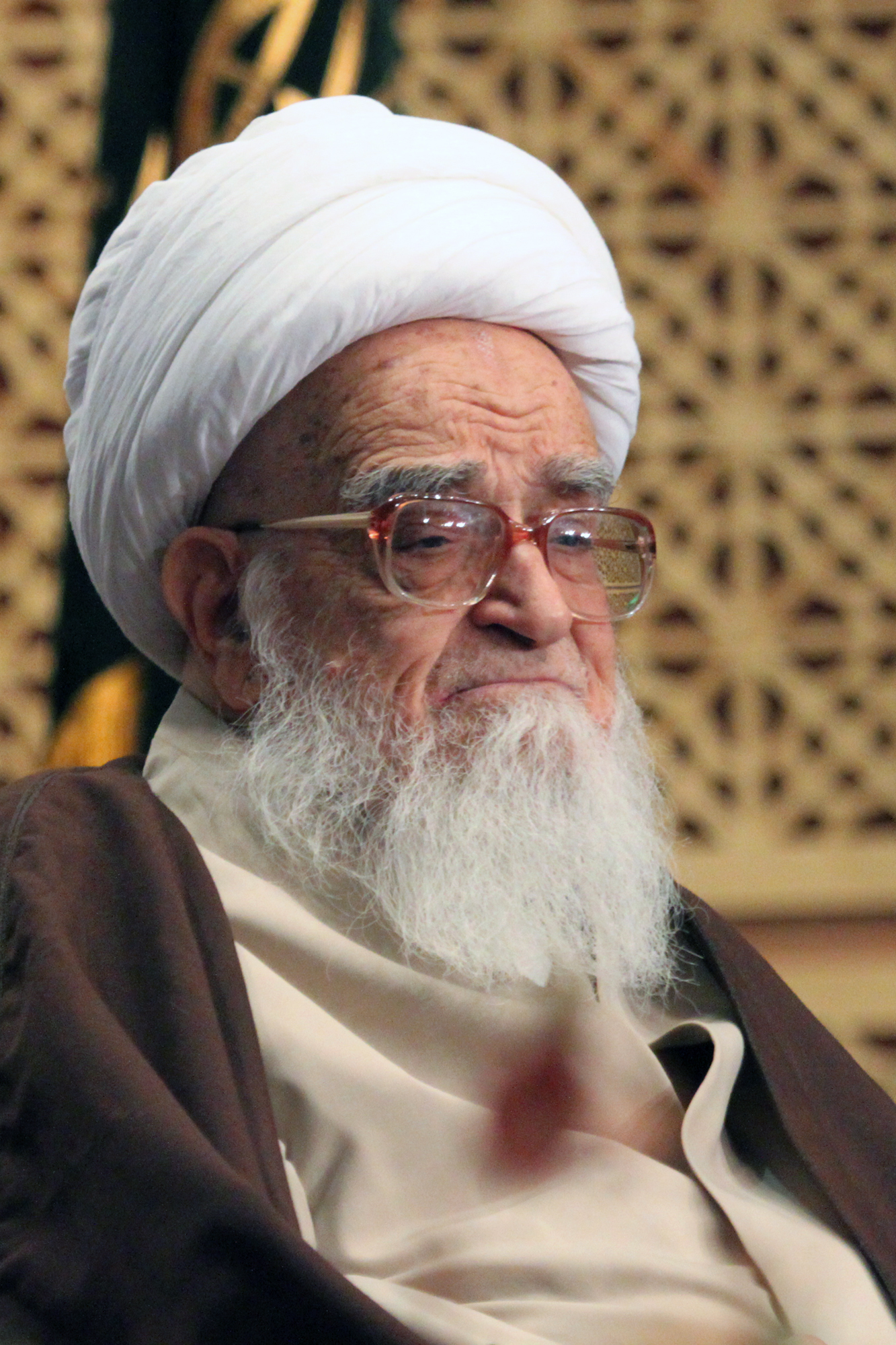 Grand Ayatollah Lotfollah Safi Golpaygani (born February 20, 1919) is an Iranian Twelver Shia Marja. He was born in Golpaygan, Iran. He has studied in seminaries of Najaf, Iraq under Grand Ayatollah Borujerdi. He currently resides and teaches in the Seminary of Qom, Iran. He is a supporter of the Islamic revolution in Iran and is known for his fatwa calling for the death of rapper Shahin Najafi for apostasy.